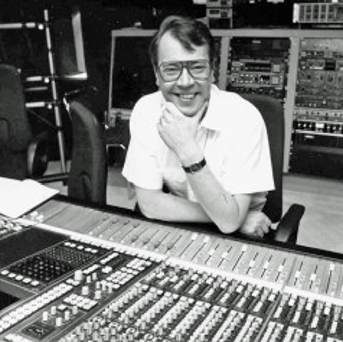 SSL 56-48